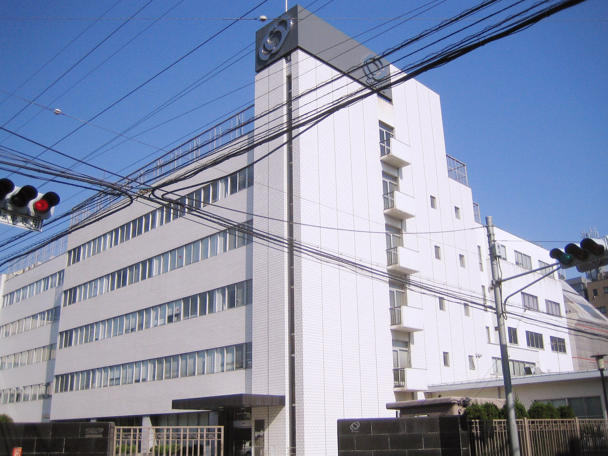 Obunsha Co., Ltd. (旺文社 Ōbunsha), a publisher in Shinjuku, Tokyo, Japan